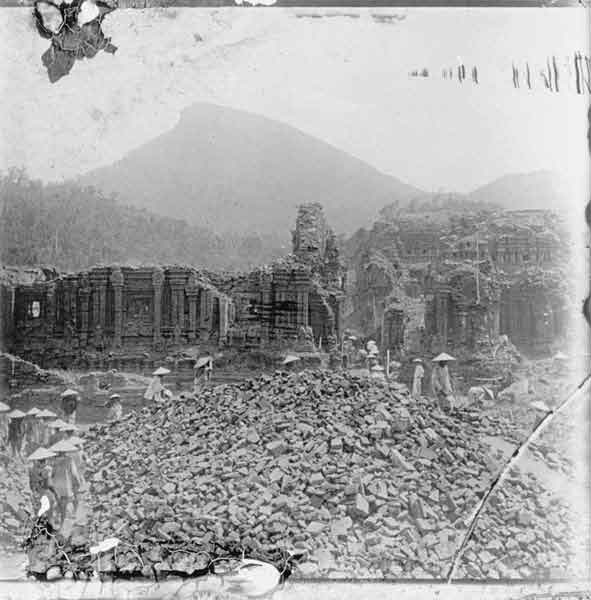 Site de My Son (Quang Nam), pendant la campagne de fouilles d'Henri Parmentier et de Charles Carpeaux en 1903-1904 (photothèque EFEO, CAR00041, cliché Ch. Carpeaux)